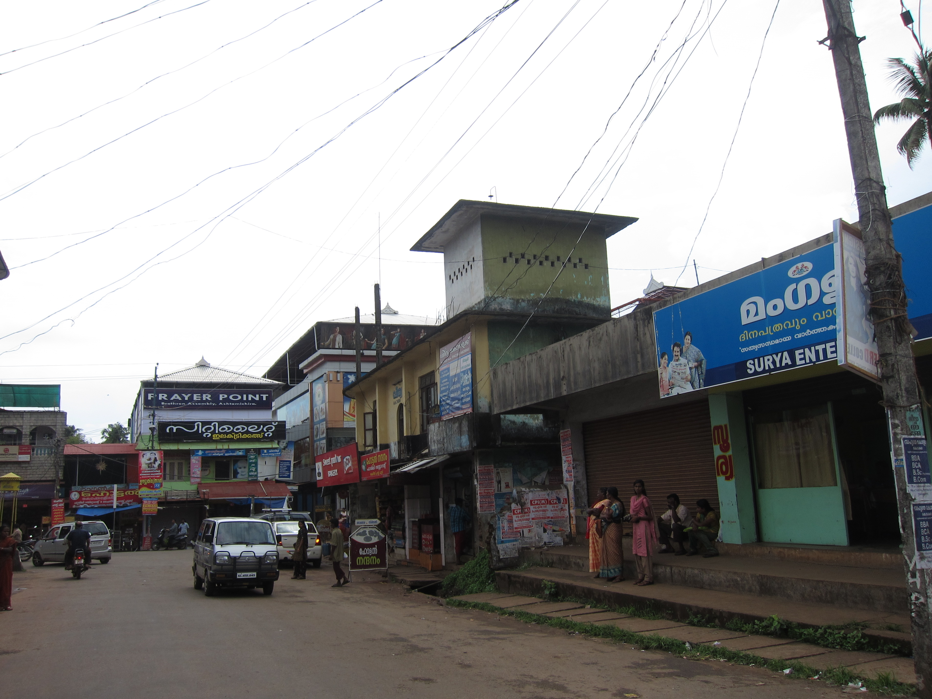 Ashtamichira Junction - അഷ്ടമിച്ചിറ കവല Mala - മാള ചാലക്കുടിയിൽ നിന്നുള്ള വഴി അഷ്ടമിച്ചിറ കവലയിലേക്കെത്തുന്നു. Thrissur - ത്രിശ്ശൂർ